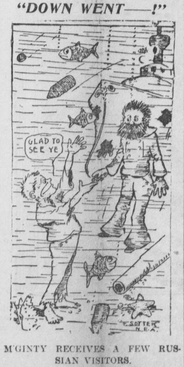 the upper caption, "DOWN WENT ____", and the lower caption, M'GINTY RECEIVES A FEW RUSSIAN VISITORS", allude to the 1889 song "Down Went McGinty" by Joseph Flynn; here, the Russian sailors are "going down to the bottom of the sea" because their ships have been sunk as a result of battles in the Russo-Japanese War.